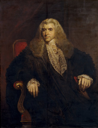 Sir Vicary Gibbs (1751-1820), Attorney General